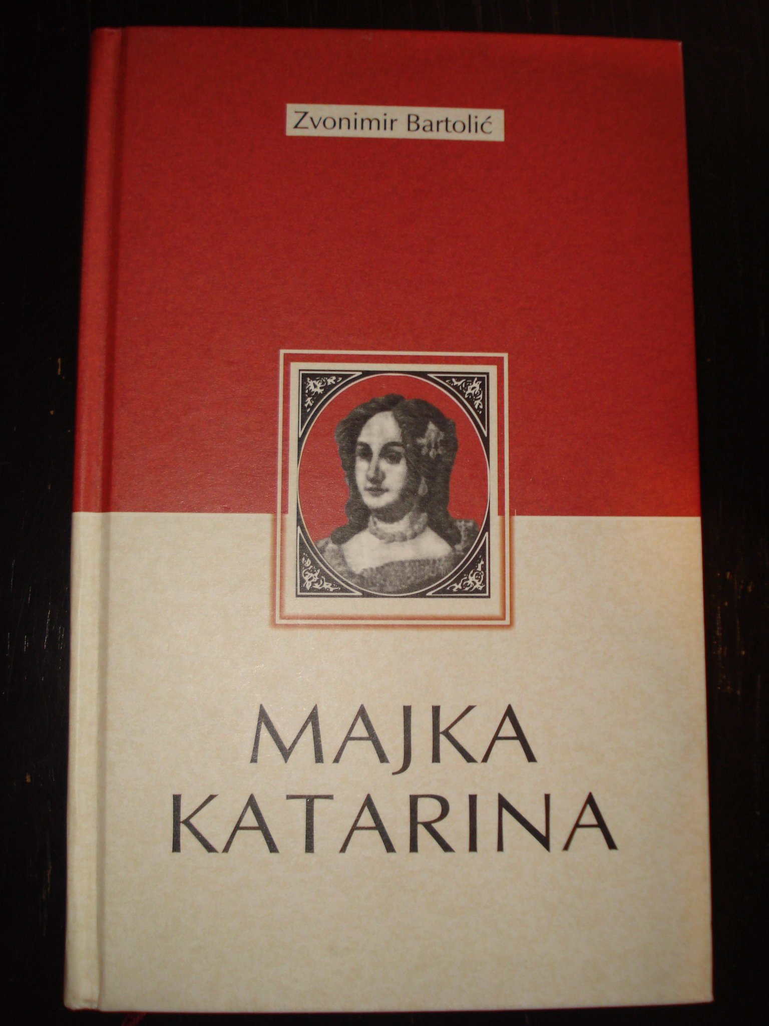 Prof.Ph.D. Zvonimir Bartolić: "Majka Katarina" (Mother Catherine) - book cover; Publisher: "Matrix Croatica-Čakovec Branch" & "Zrinski" Inc. (printing company), Čakovec, Croatia, 2004. ISBN 953-6138-15-8.